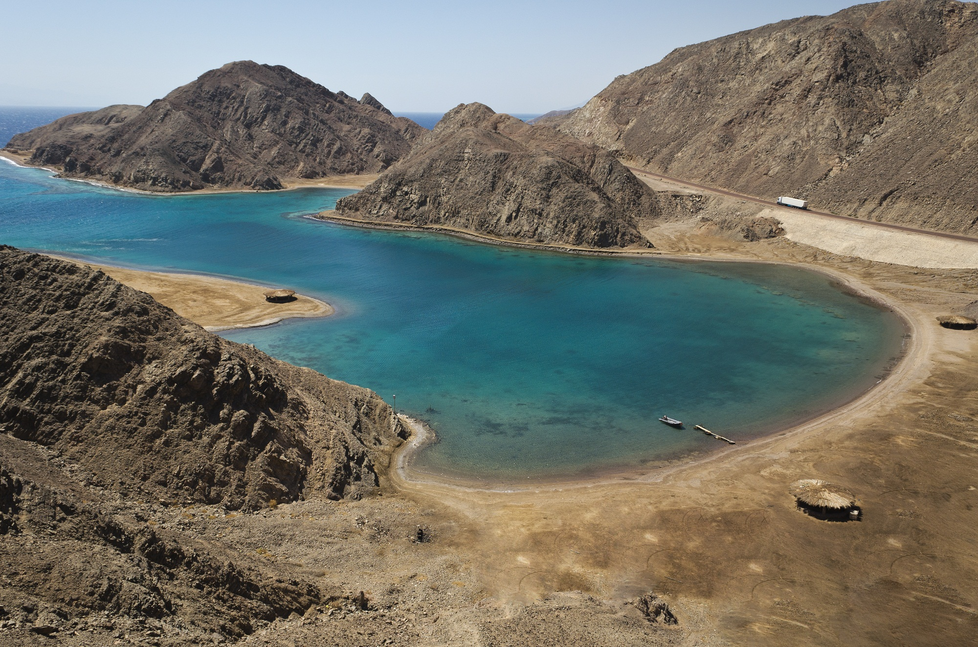 Located just 15 km south of Taba, the Fjord is a spectacular diving spot housed by a stunningly beautiful and protected bay with dazzling coral reefs and unforgettable scenery. If you’re an experienced diver, you’ll be tempted by the “Fjord hole”: a site you will reach after following a huge coral bed at 16 m of depth, you’ll find a huge hole that goes down to a depth of 24 m. After entering the hole, you’ll witness an amazing marine life scene: fish from the open sea coming to feed on plenty of tiny Glass Fish and Silver Fish. The “Fjord Banana” is an alternative for the less experienced divers: a shallow reef in the shape of a banana, reaching a maximal depth of 12 m, and housing a wide variety of fish and corals.